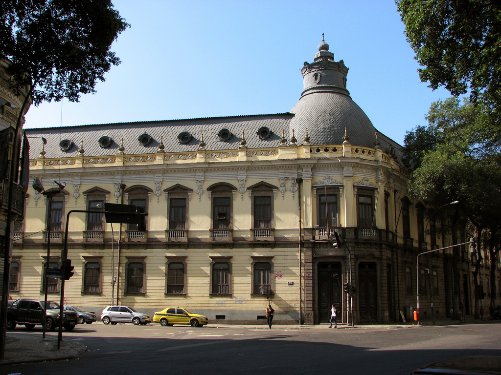 Imperial College Pedro II - established by Emperor Pedro II in December 2, 1837.